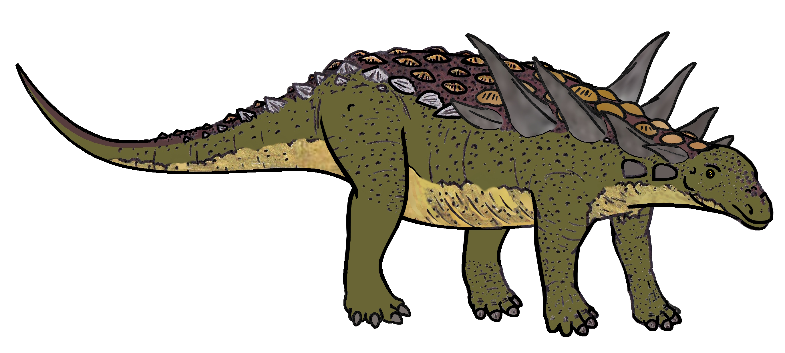 Animantarx ( Name means "Living fortress " ) was a planteating dinosaur from North America of the cretaceous period. It was a nodosaurid, with spikes on it's shoulders and bony bumps on the back.